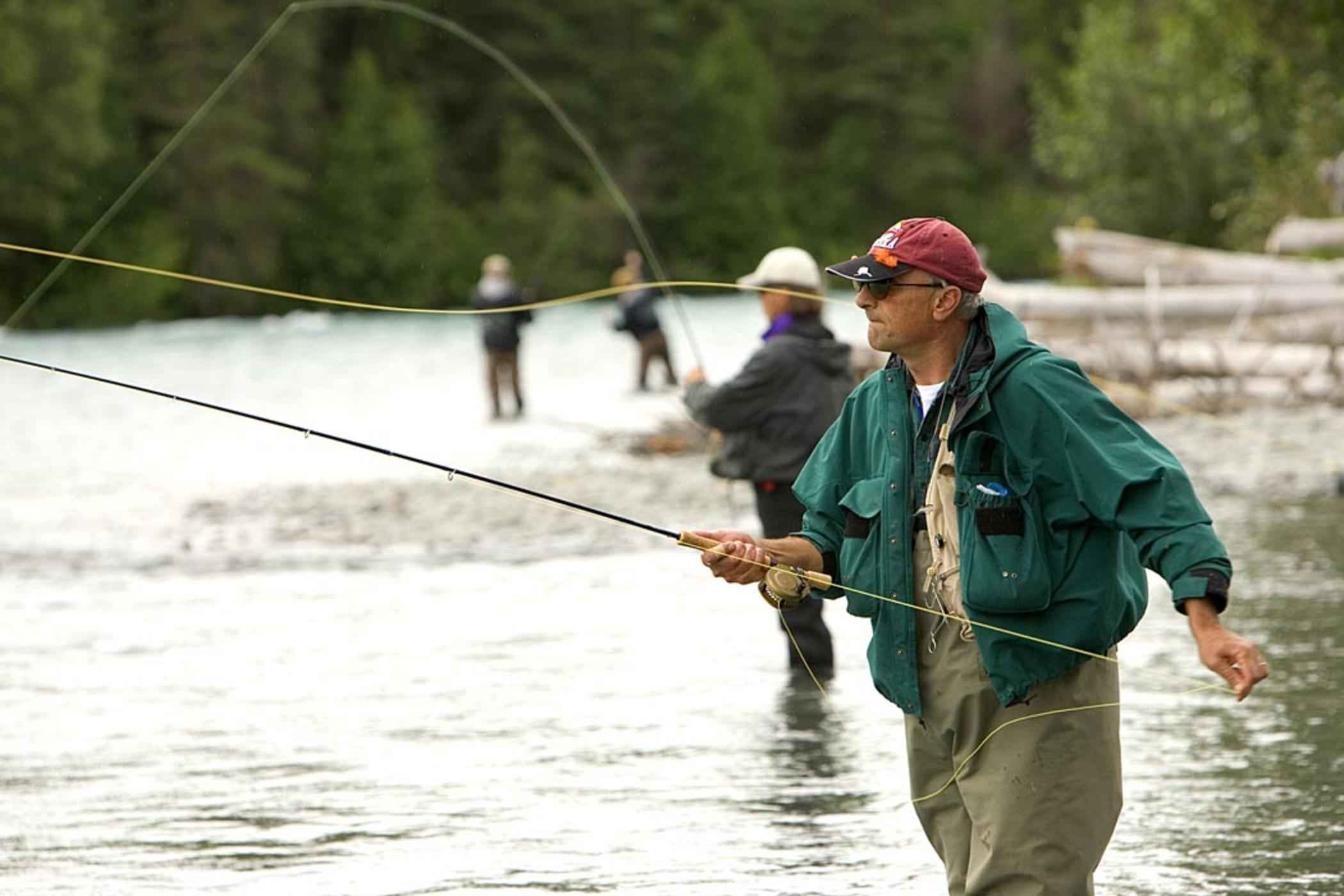 Image title: Men fly fishing Image from Public domain images website